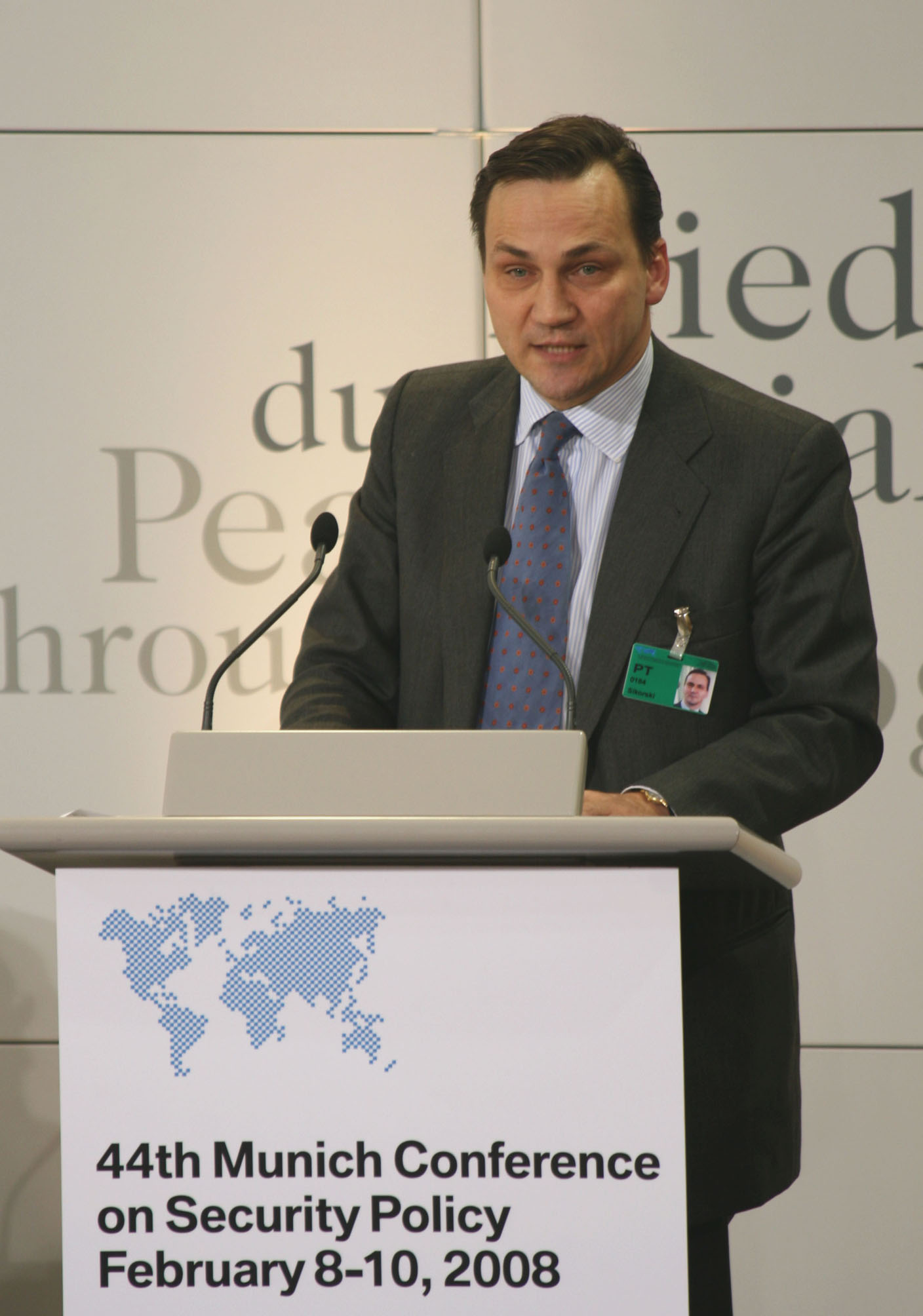 44th Munich Security Conference 2008: The Minister of Foreign Affairs, Republic of Poland, Radosław Sikorski, during his speech.